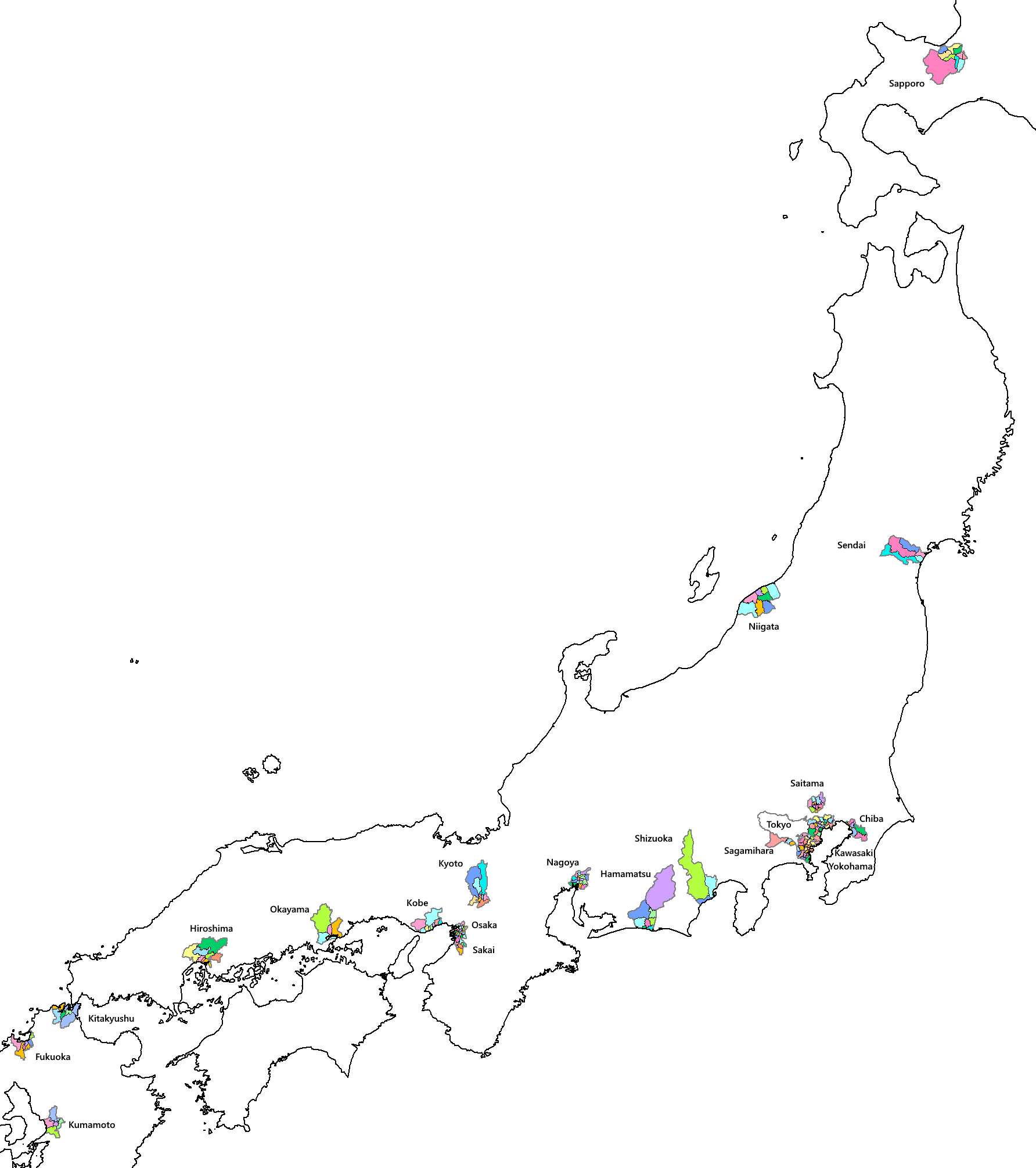 Overview map of the wards ('ku') of certain cities of Japan. Created by Rarelibra 13:42, 1 August 2007 (UTC) for public domain use, using MapInfo Professional v8.5 and various mapping resources.